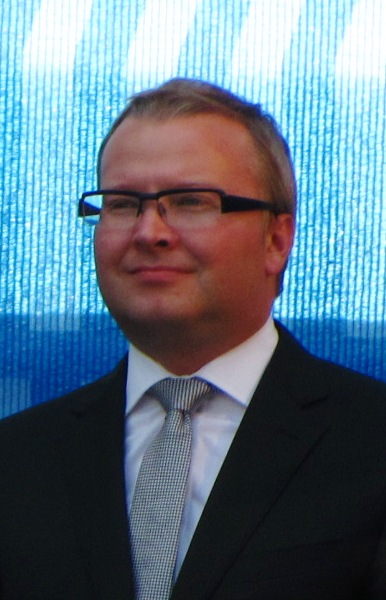 Tomáš Chalupa, Minister of the Environment of the Czech Republic